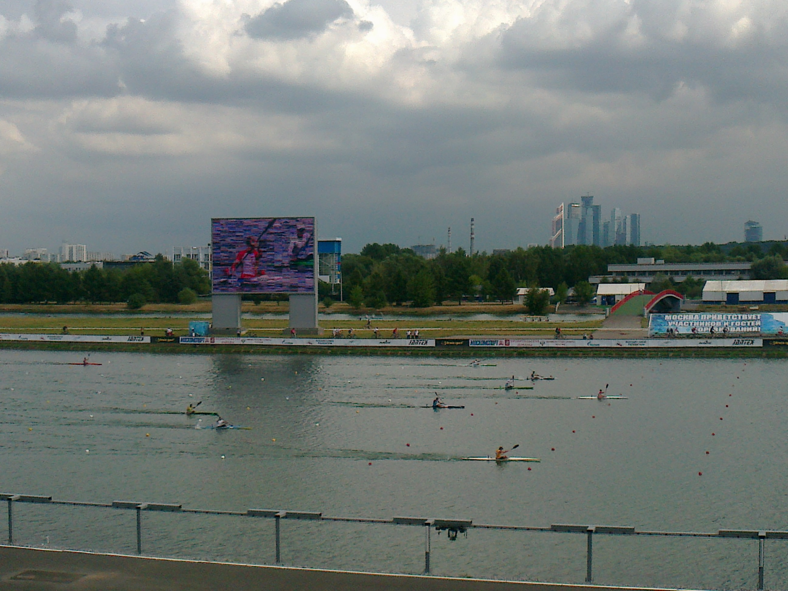 2014 ICF Canoe Sprint World Championships. Semifinal K1 500m. Kenny Wallace (9) wins, Marcus Walz (5) becomes second